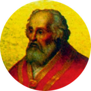 Portait of Pope John XV in the Basilica of Saint Paul Outside the Walls, Rome